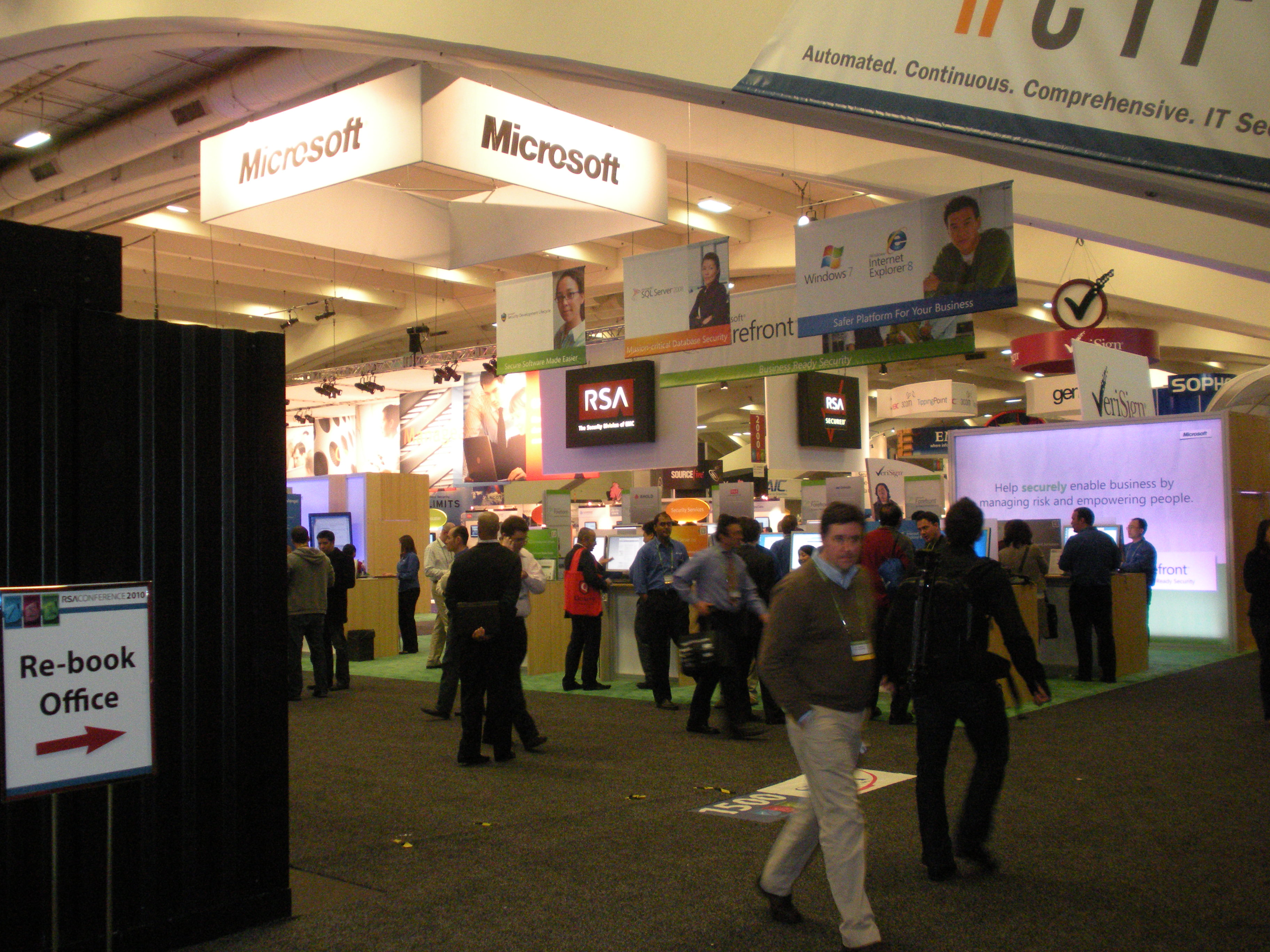 This is the Security Expo at the 2010 RSA Conference. This picture is also available at